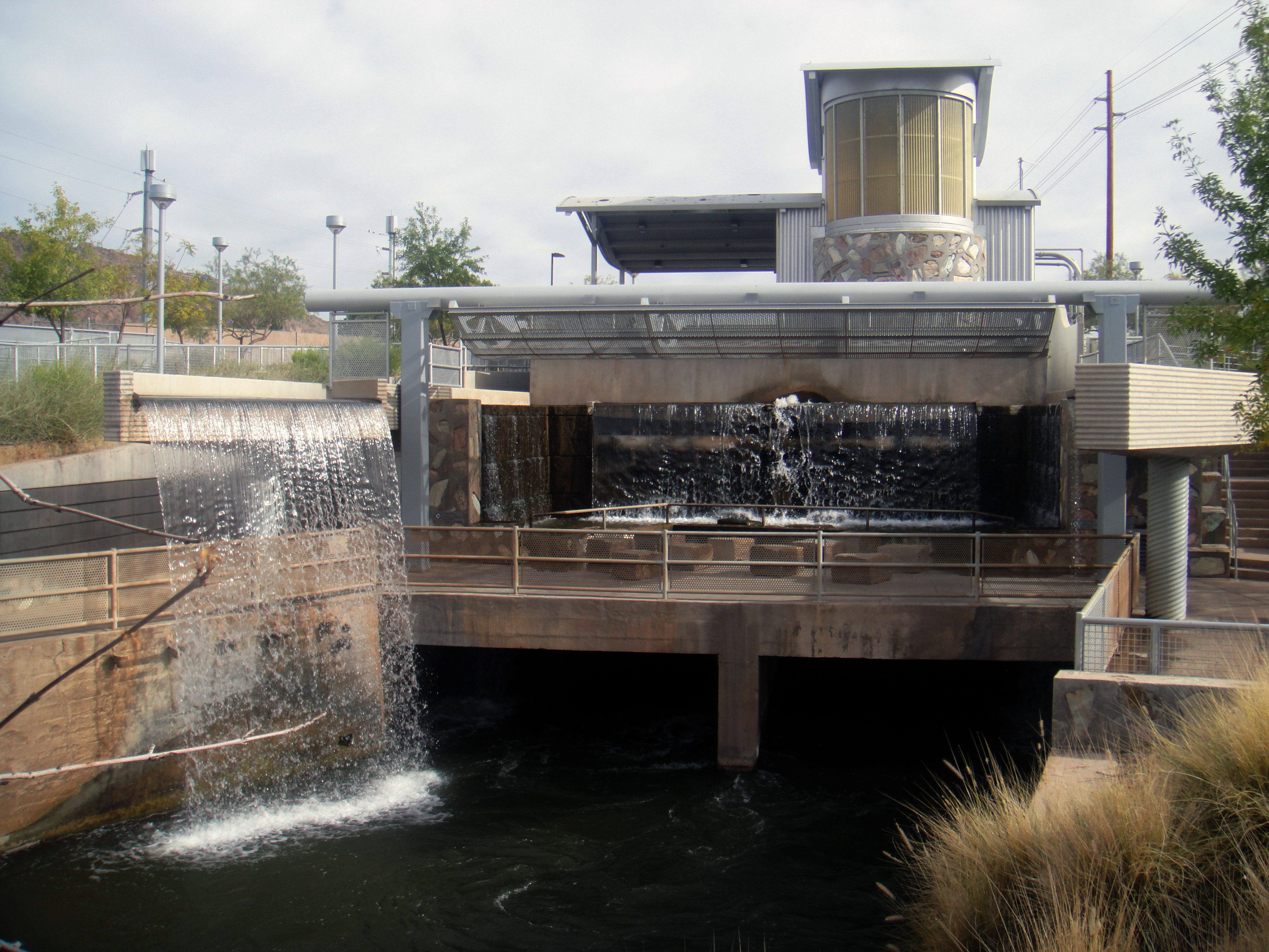 Photo of the Arizona Falls along the Arizona Canal in Phoenix.